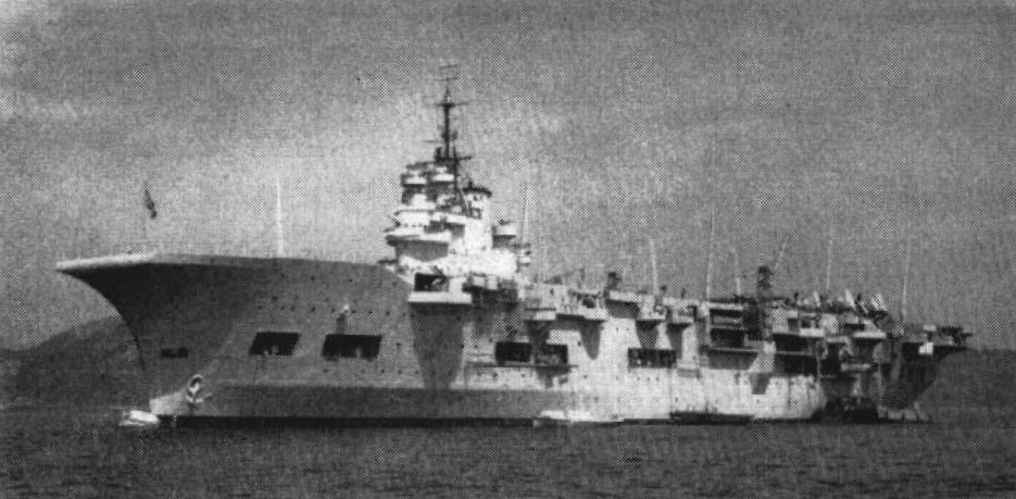 The Royal Navy aircraft carrier HMS Unicorn (I72), probably at Sasebo, Japan.